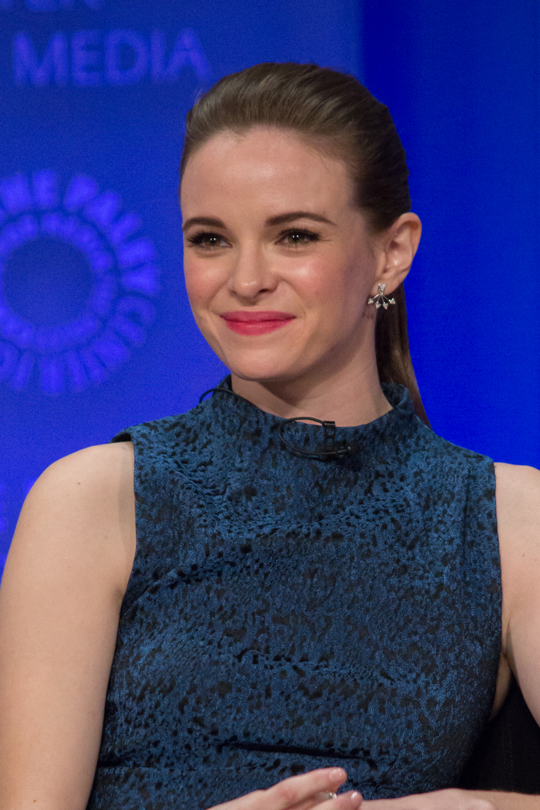 Danielle Panabaker at the PaleyFest 2015 presentation for "The Flash"